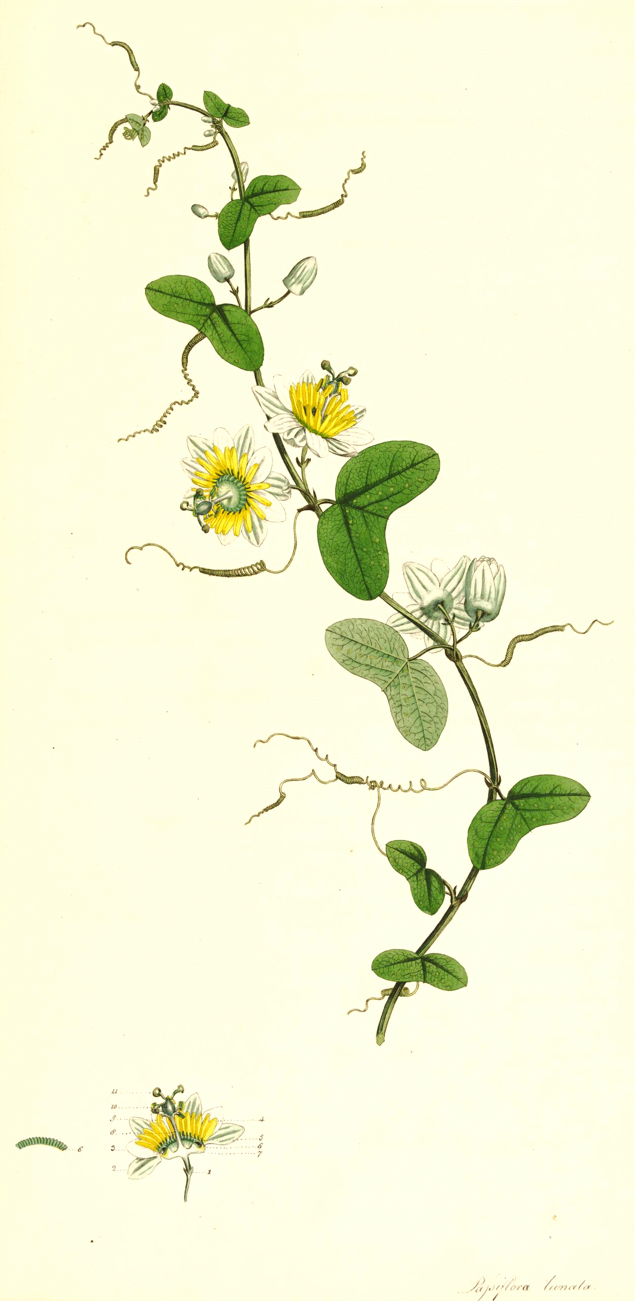 Plate from book